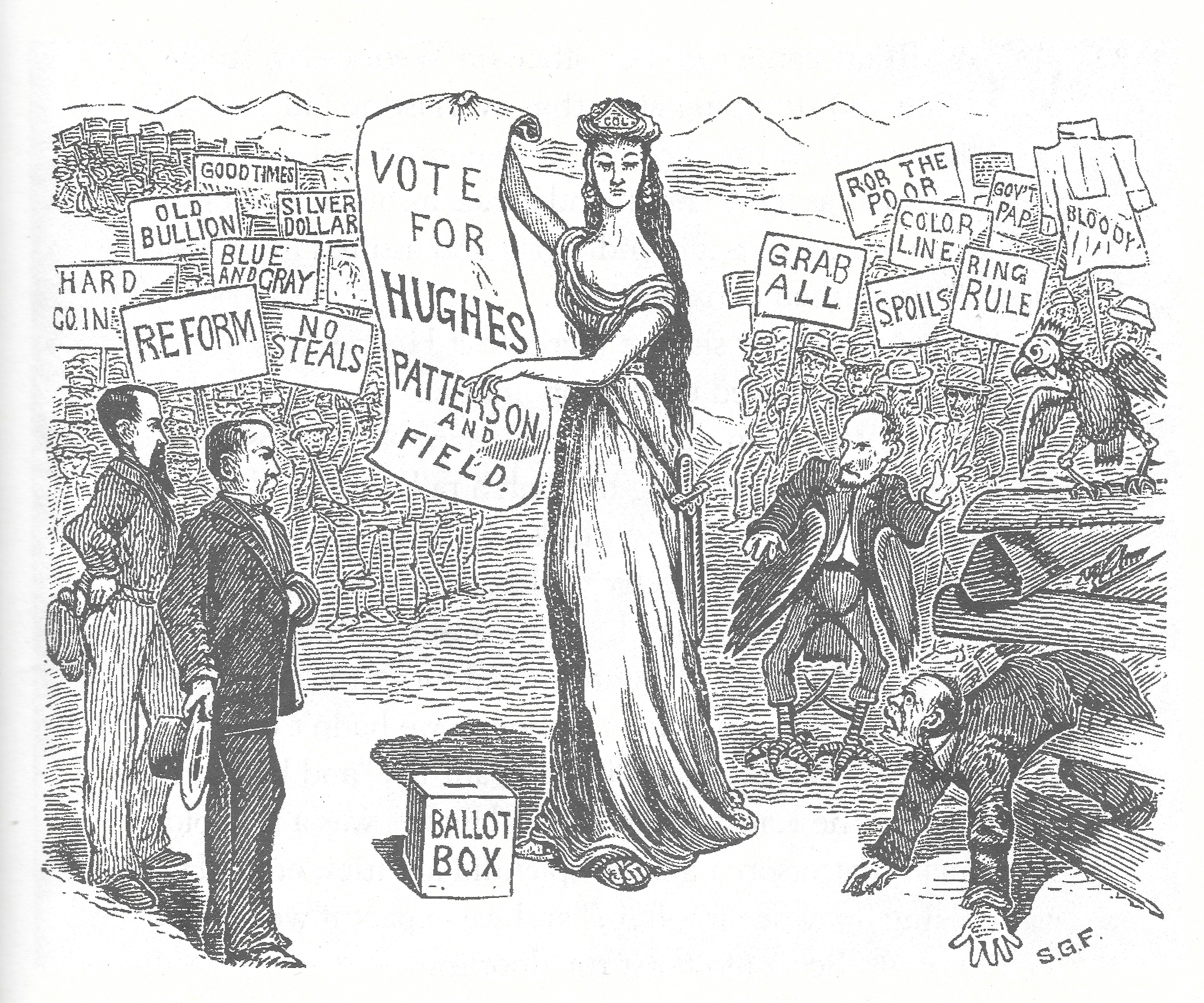 The Denver Mirror is calling its readers to support the Democratic ticket in State elections on October 3, 1876. Original caption: "Act with deliberation and judgment. Decide between Corruption in Office and Purity in Public Morals; the Restoration of Silver or debasement; Brotherly Friendship and Co-operating or Sectional Hate; a Profligate or an Economical Administration. Eschew Strict Party Lines, and Vote as an Enlightened Conscience dictates, keeping steadily in view the Industrial, Educational, and Moral Progress of the Centennial State, and the Best Good of the Entire Country."